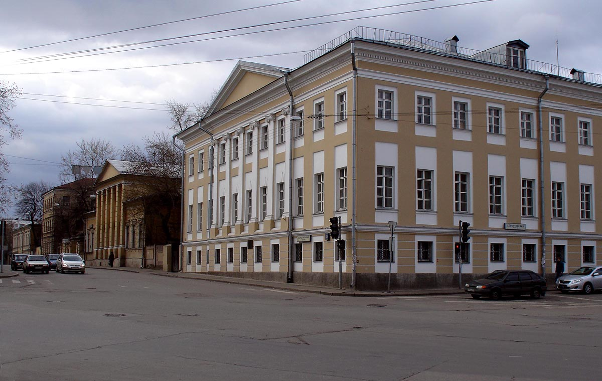 Lefortovskaya Square, Basmanny District, Moscow, Russia. It is not in Lefortovsky district, but on the opposite, northern side of Yauza River. The building on the right, Lefortovo Police department, was once crowned with a wooden fire lookout tower - like all police depts in old Moscow.